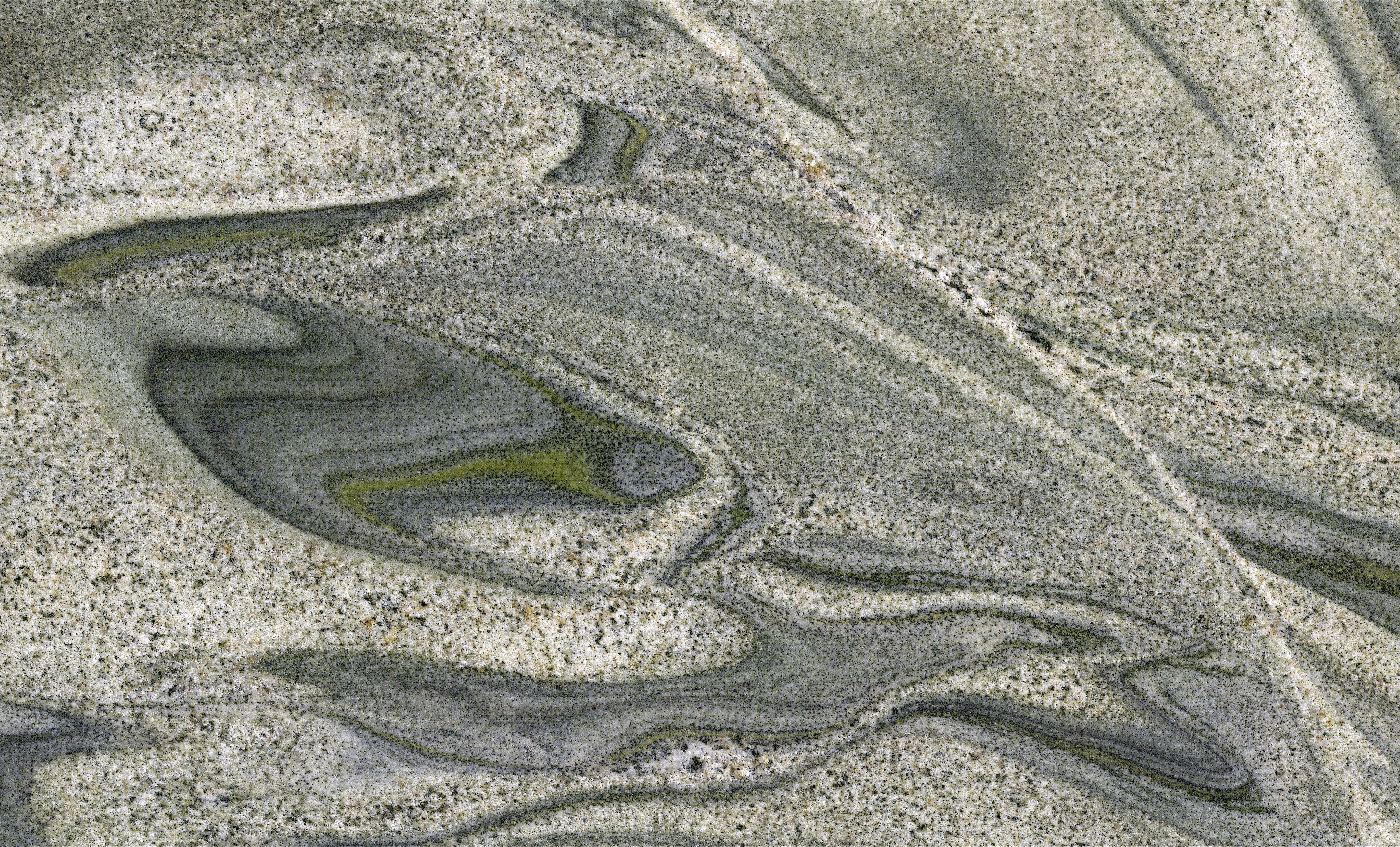 Iguana Green Granite - faulted and sheared gneiss (or migmatite) from Brazil. Gneiss is a common high-grade, foliated metamorphic rock characterized by alternating bands of light- and dark-colored minerals. It forms by metamorphism of schists or felsic-to-intermediate intrusive igneous rocks (e.g., granite). Locality: attributed to a quarry near the town of Messias Targino, Rio Grande do Norte State, eastern Brazil